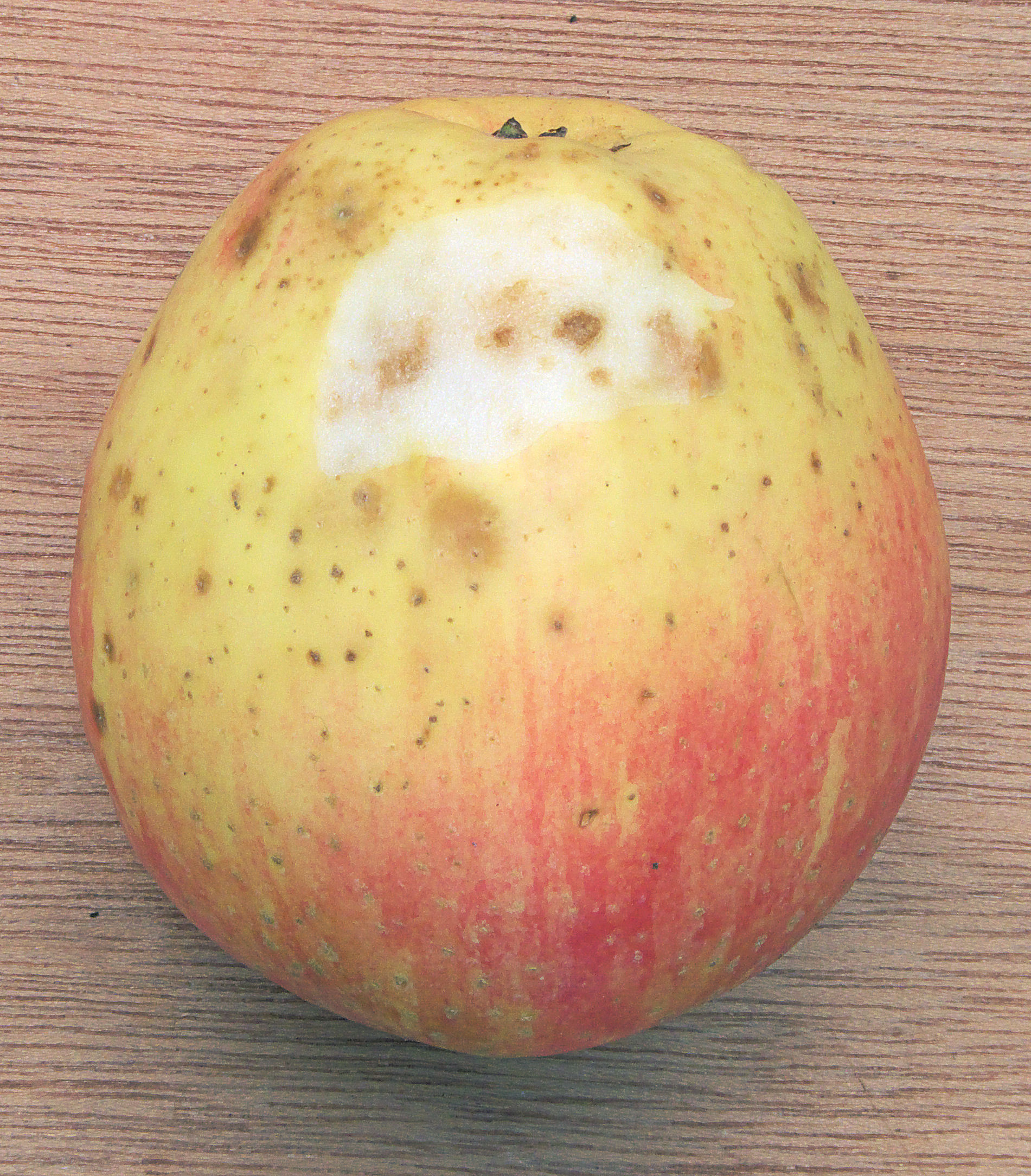 Malus domestica 'Summerred' bitterpit